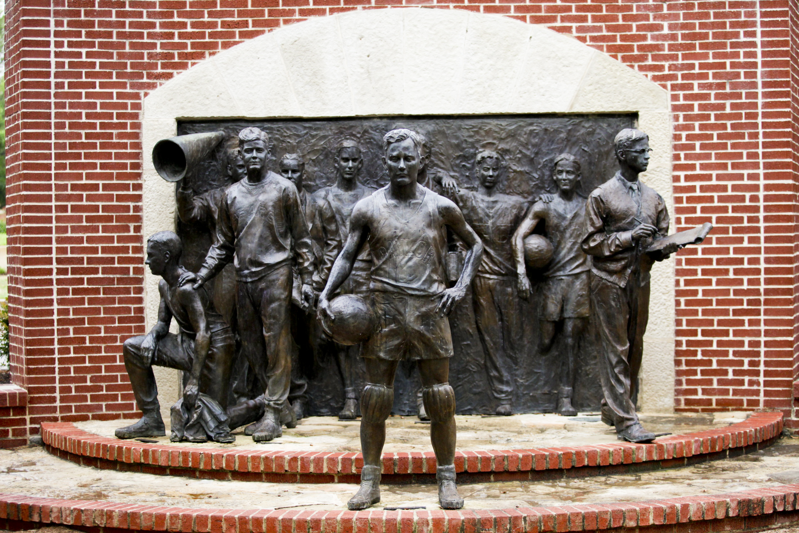 A speeding train took the lives of 10 Baylor basketball student-athletes, coaches and fans at a crossing near Round Rock, Texas, as the team was headed to Austin for a game against Texas. First-year students still honor the memories of those who died during Freshman Mass Meeting, held each year during Homecoming week. The immortal 10 honors statue honors these players.